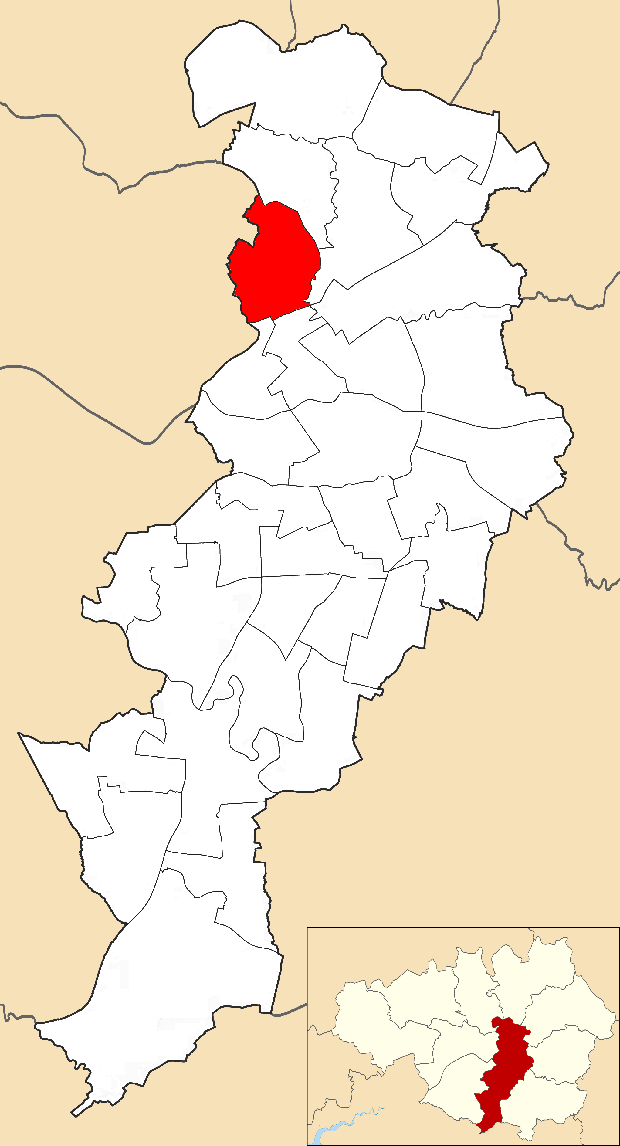 Map showing location of Cheetham ward within Manchester City Council.